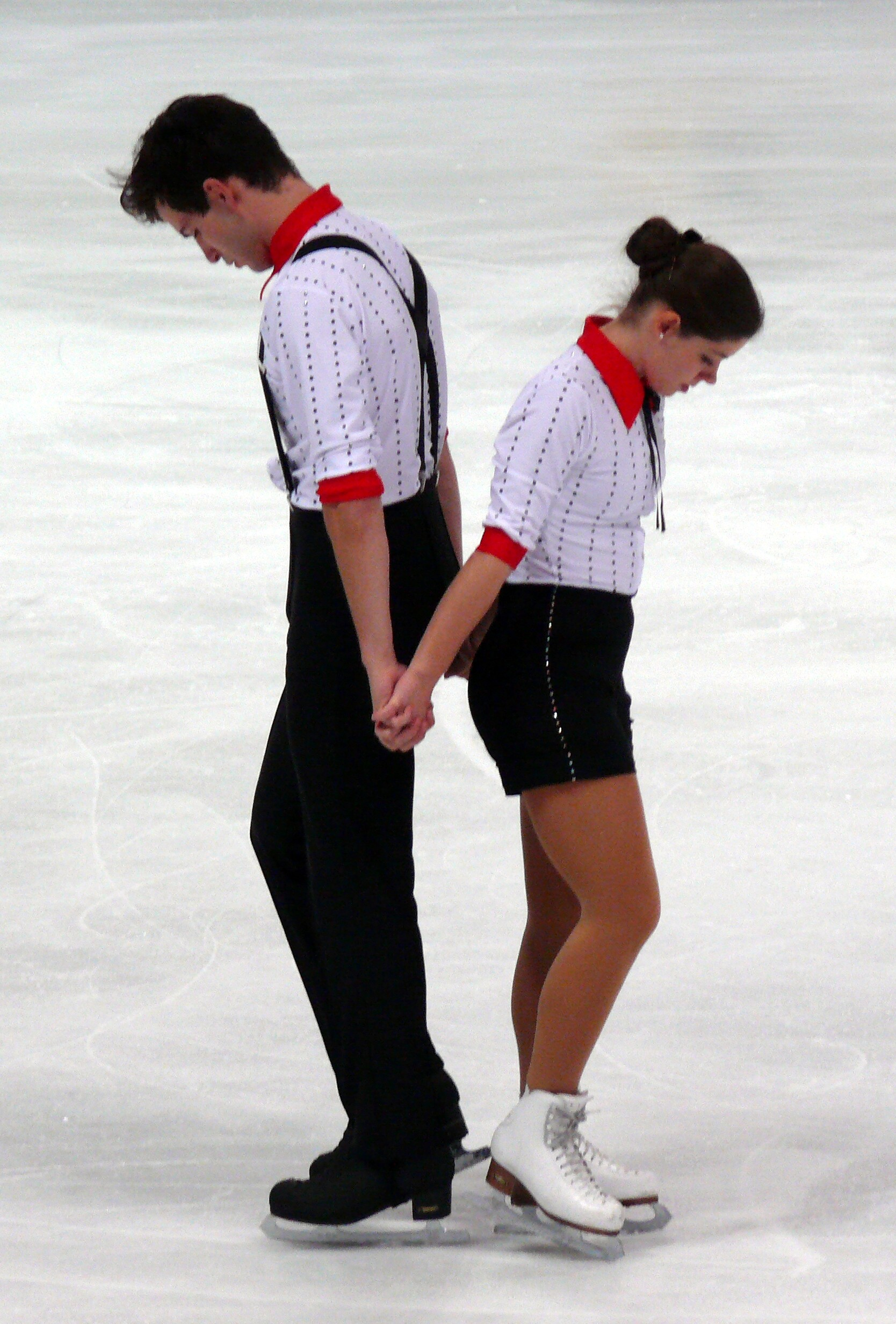 Miriam Ziegler and Severin Kiefer (AUT) at their short program at the Nebelhorn Trophy in the pairs competition in Oberstdorf / Bavaria / Germany.